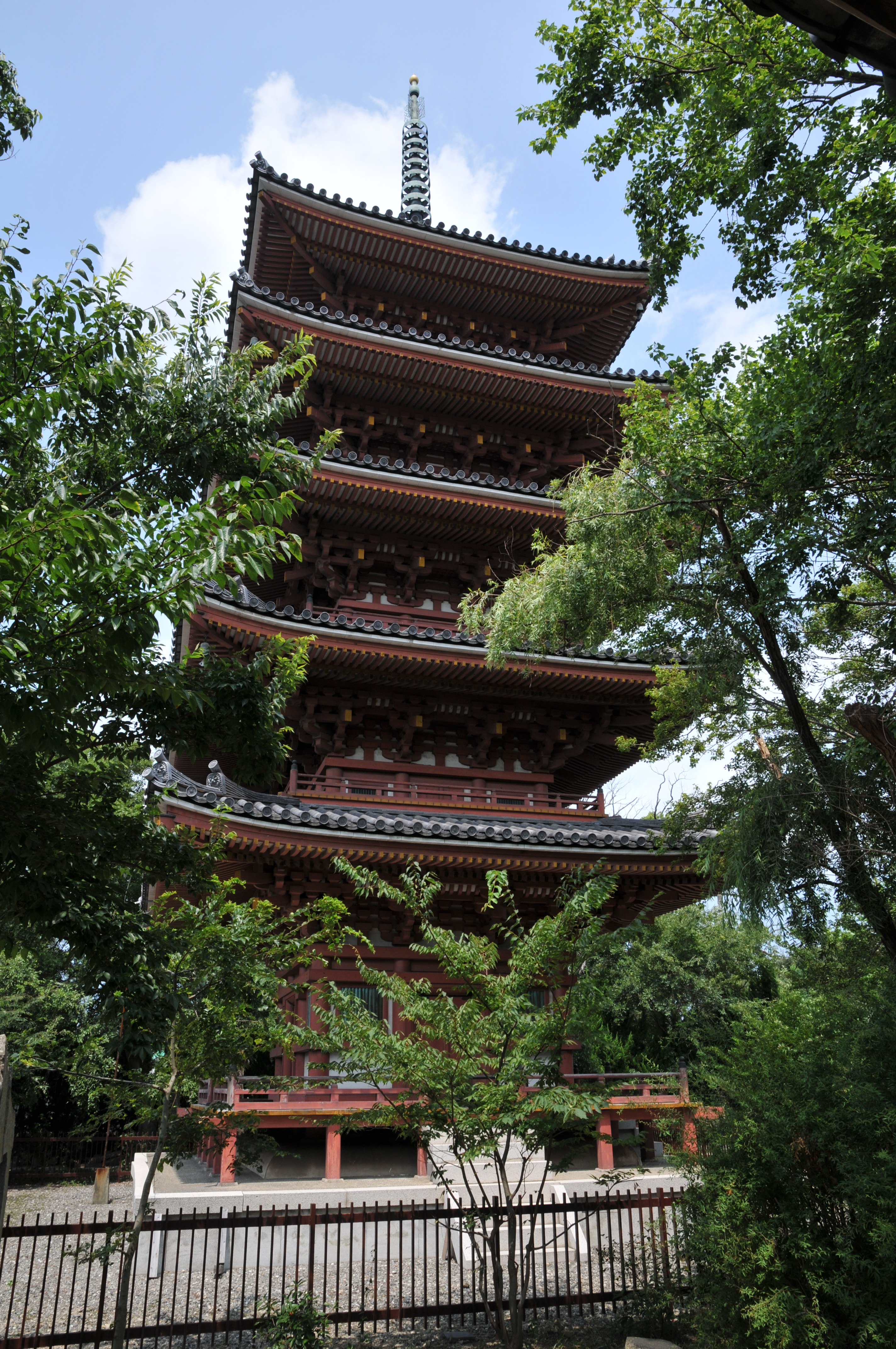 Five-storied pagoda, Shido-ji